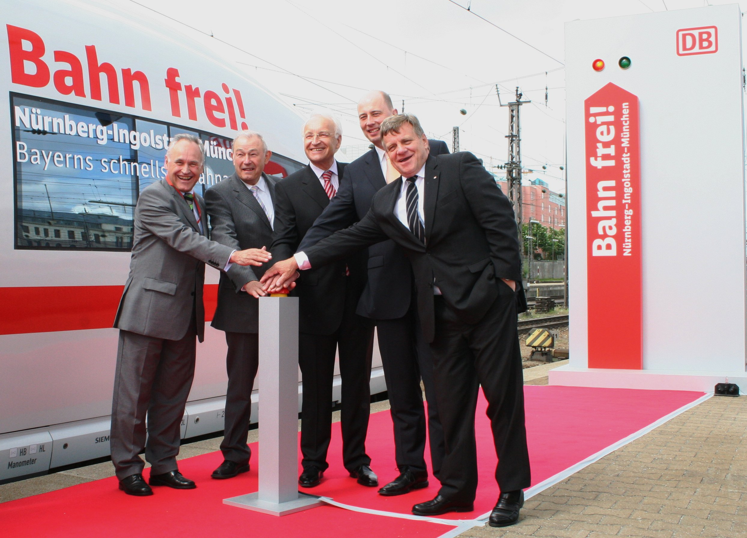 Erwin Huber, Günther Beckstein, Edmund Stoiber, Wolfgang Tiefensee and Hartmut Mehdorn officially open the Munich-Nuremberg high-speed track at Munich's main railway station, just before they depart on the ICE 3 train in the background.